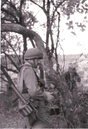 Picture taken in the Ops Zone Dec 1989 - Sector 10